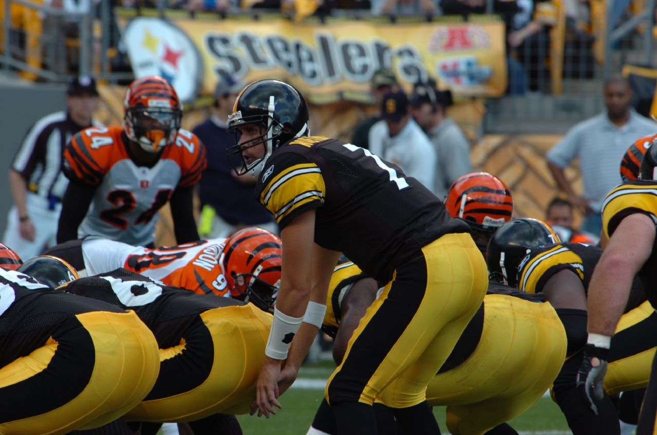 Ben Roethlisberger against the Cincinnati BengalsMRR_0136